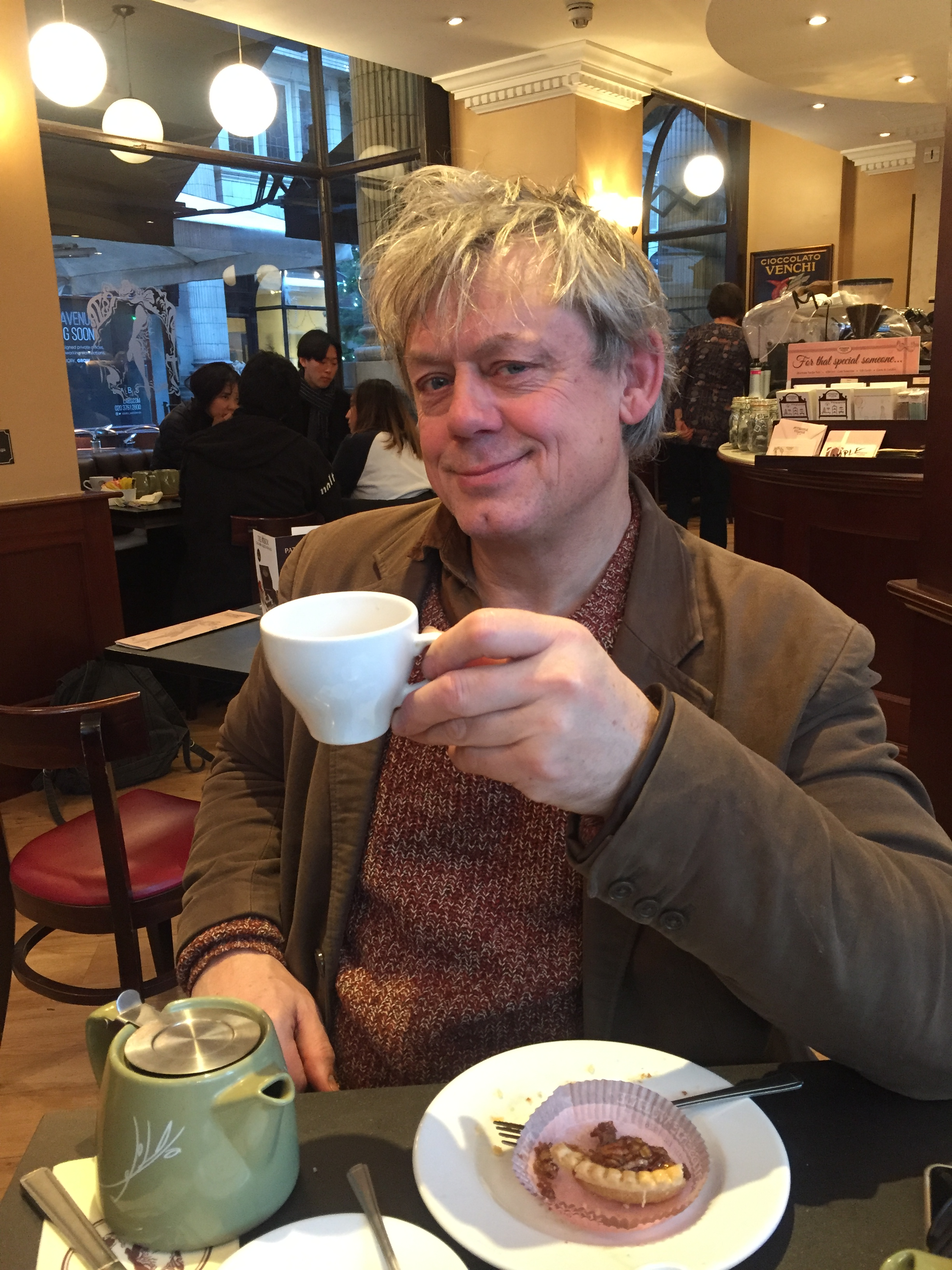 Actor, musician and comedian Graham Fellows, pictured December 2017.